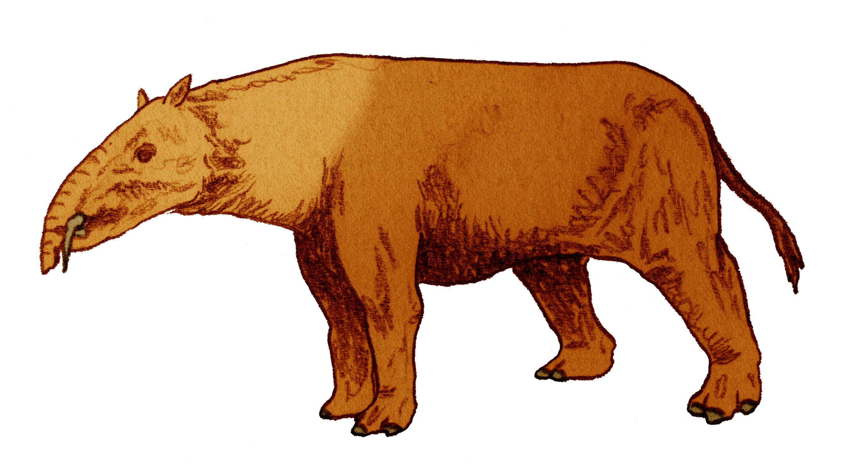 Restoration of Astrapotherium, an extinct mammal